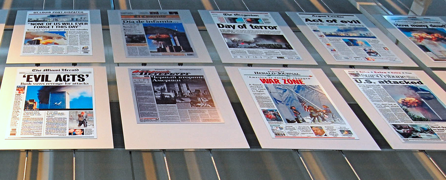 A panel in the Newseum in Washington, DC shows the September 12 headlines in the U.S. and around the world.